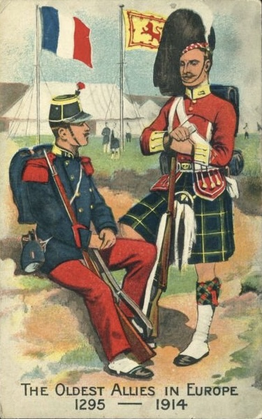 Postcard showing side by side a French soldier and a Scottish soldier, in front of a camp with floating flags of both nations.